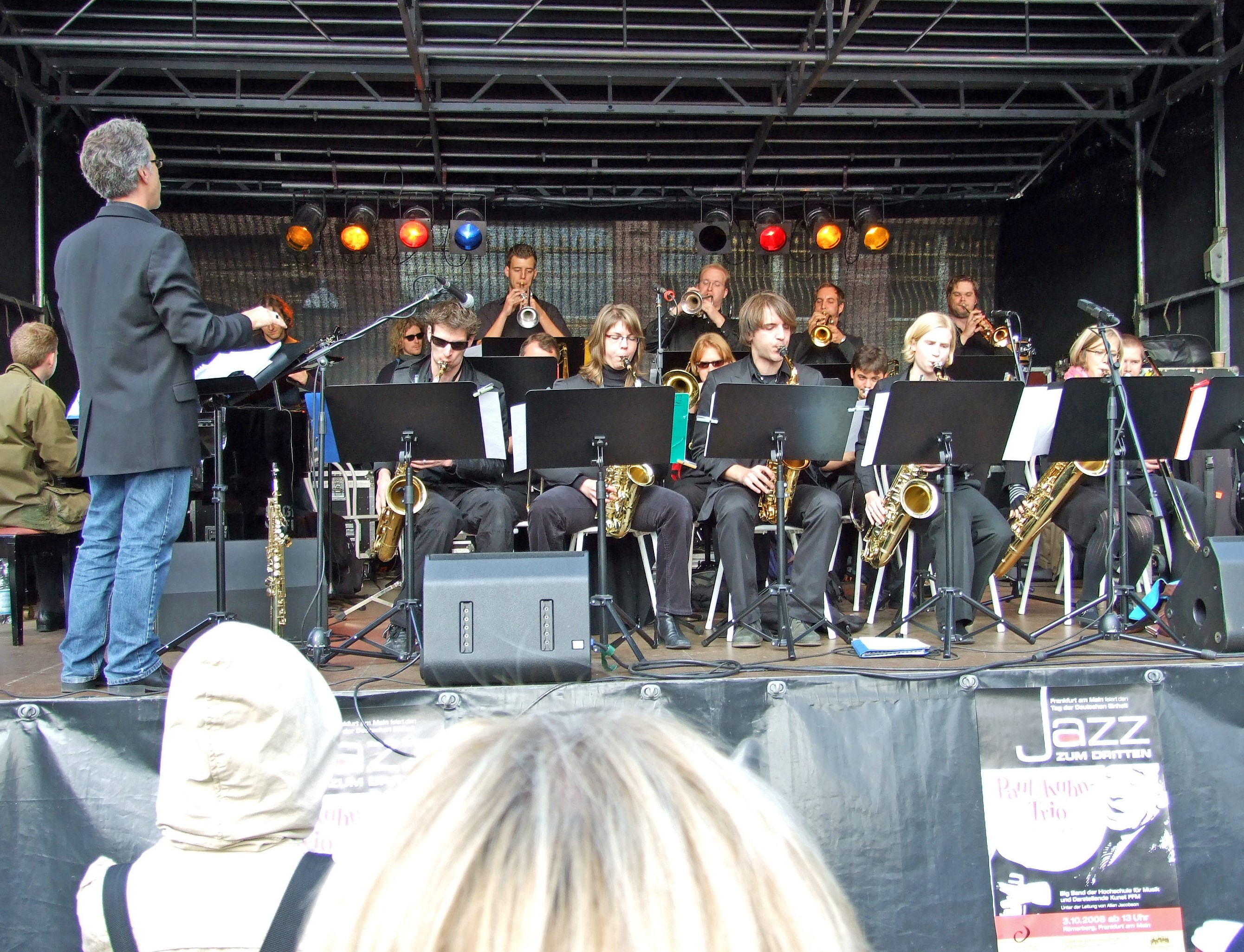 big band from Frankfurt University of Music and Performing Arts on National Holiday at Roemerberg in Frankfurt am Main